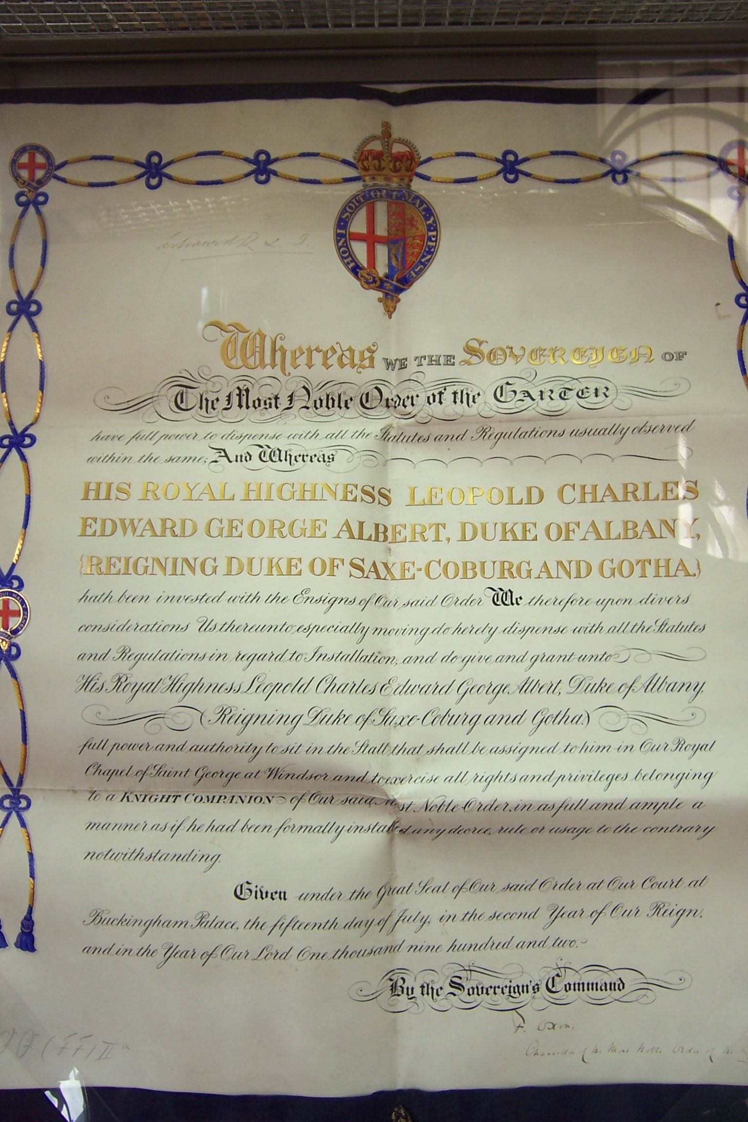 Gotha State Archives: order of the garter diploma for Charles Edward, Duke of Saxe-Coburg and Gotha (Carl Eduard (Sachsen-Coburg und Gotha)